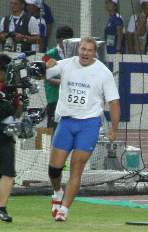 World Athletics Championships 2007 in Osaka - discus thrower Gerd Kanter cheering his victory after his last attempt in the final